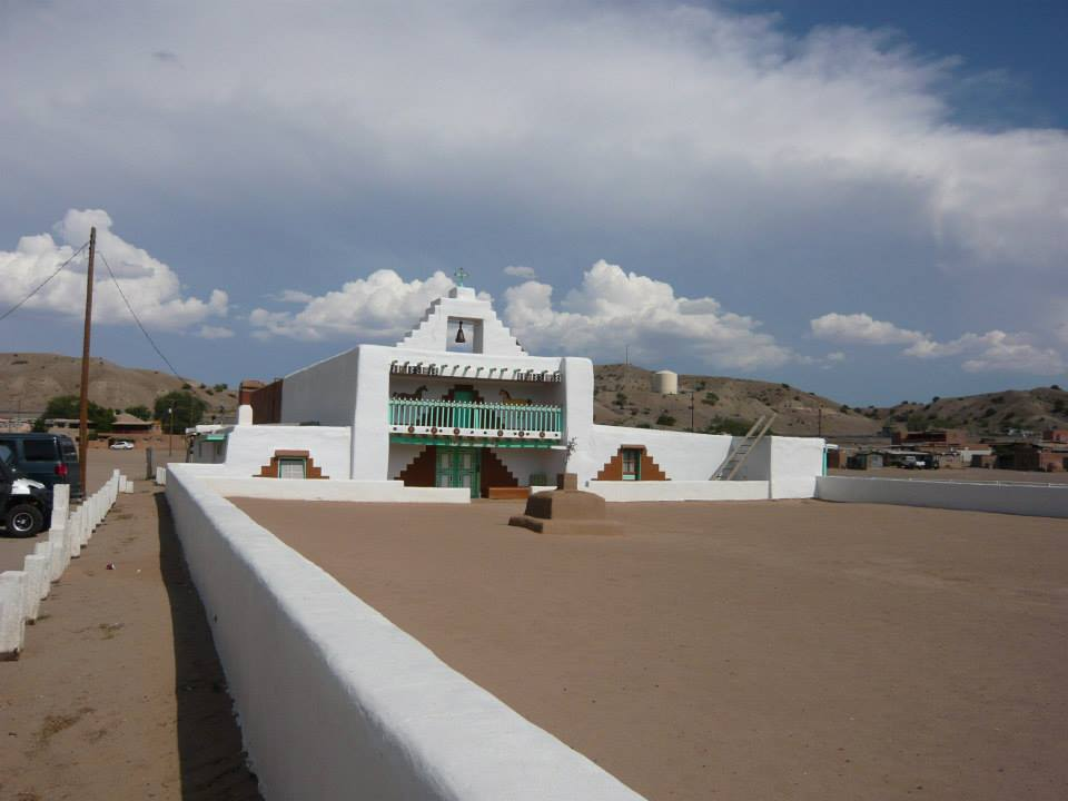 Pueblo of Santo Domingo (Kiua), 35 miles (56 km) northeast of Albuquerque, off Interstate 25 Albuquerque